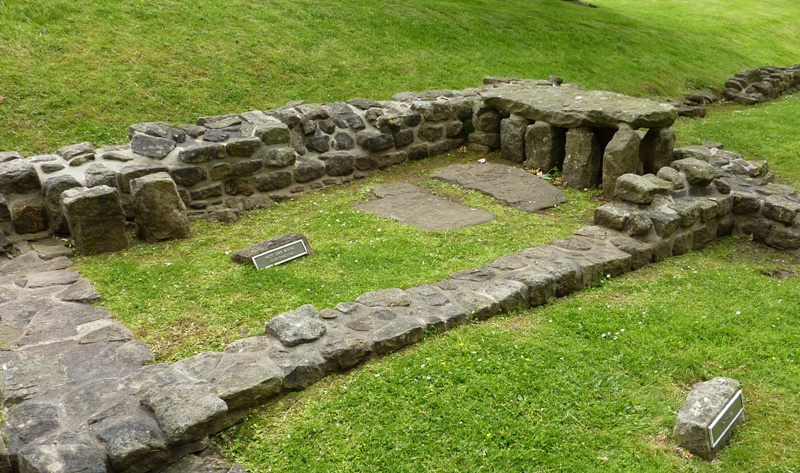 Bar Hill Fort, Twechar, East Dunbartonshire, Scotland - bath house: laconicum